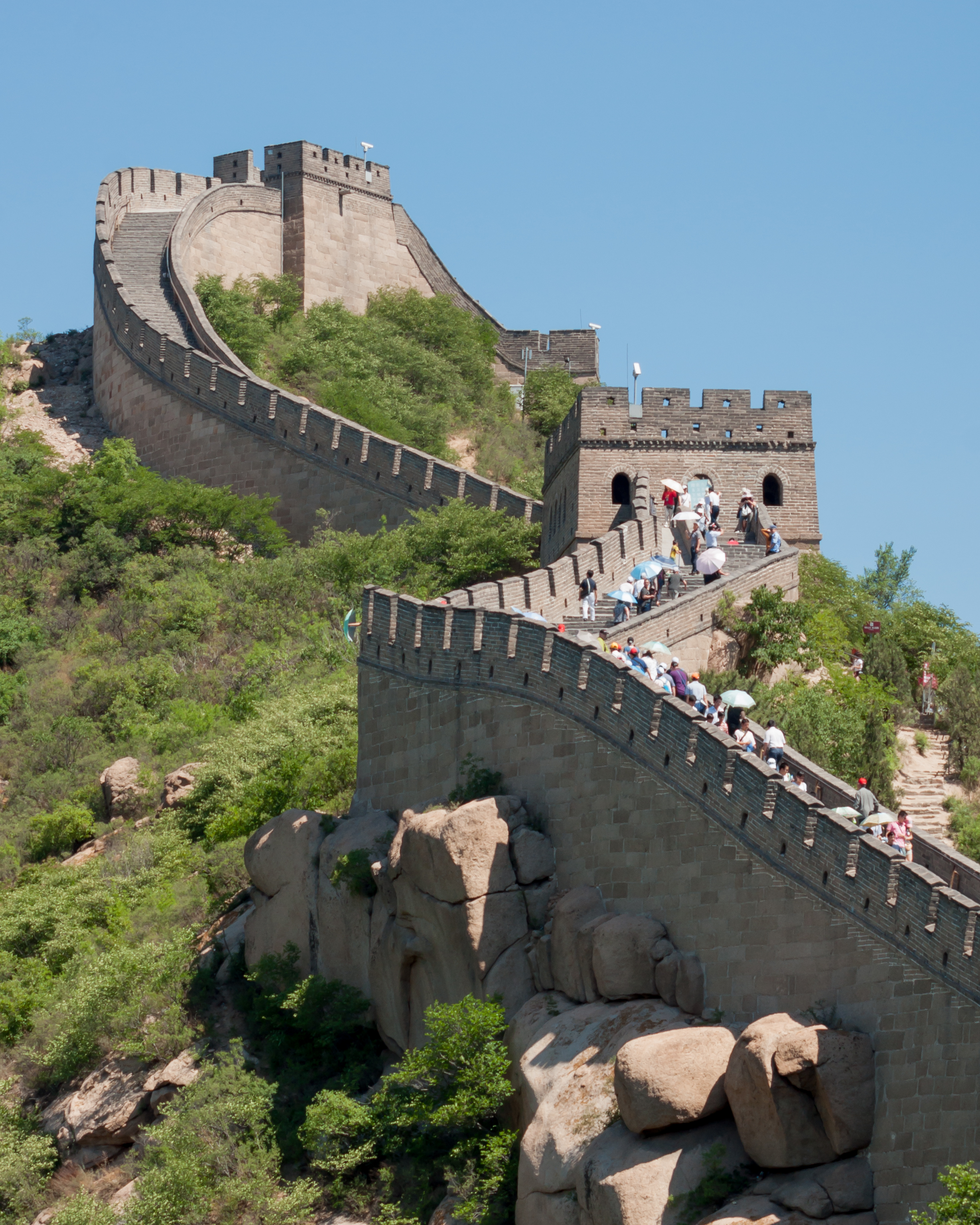 Badaling, China: Great Wall of China at Badaling